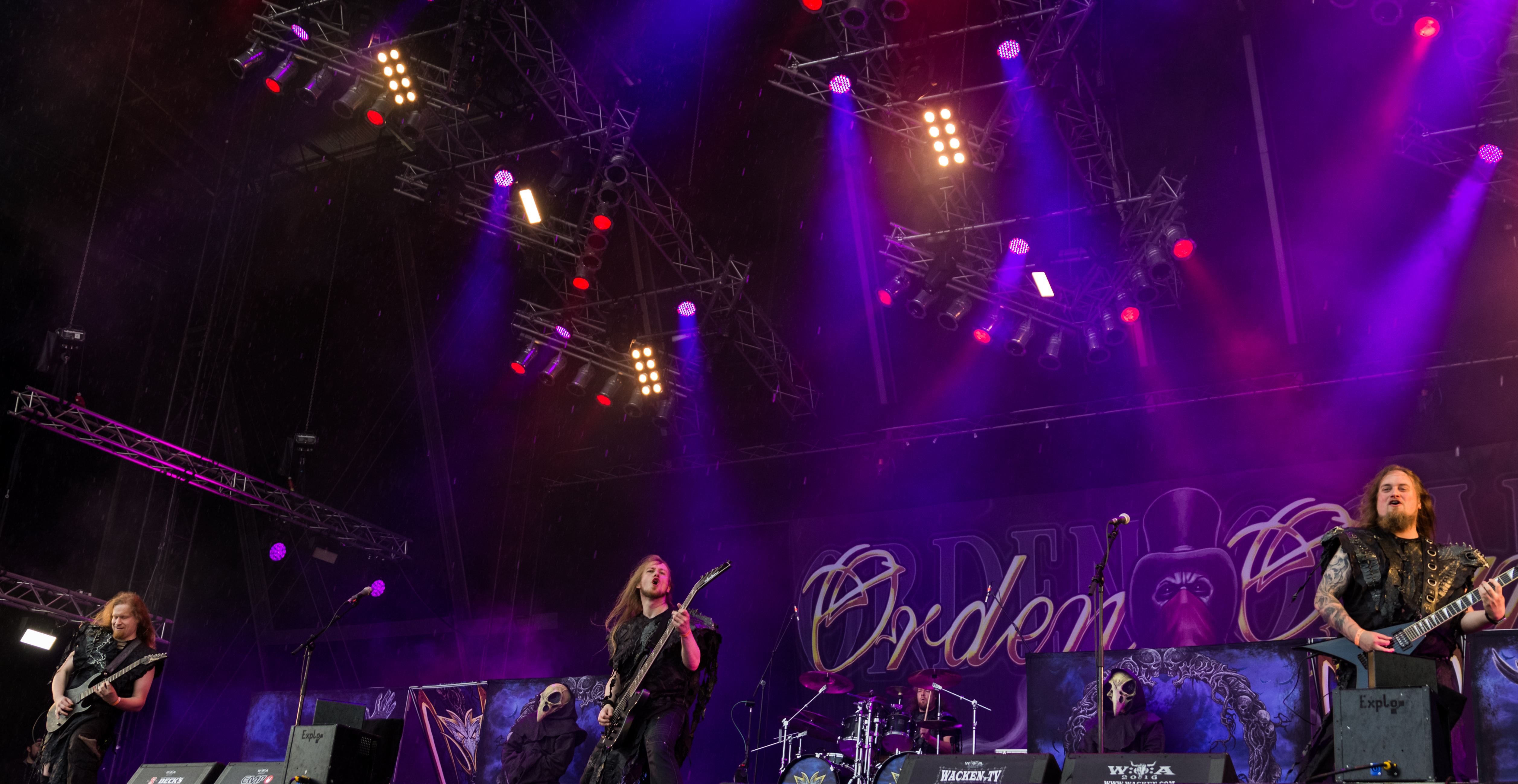 Orden Ogan - Wacken Open Air 2016